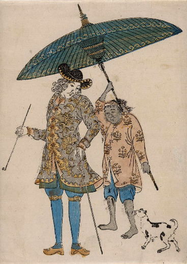 Edo period,"Dejima"is a only place that import with Netherland.